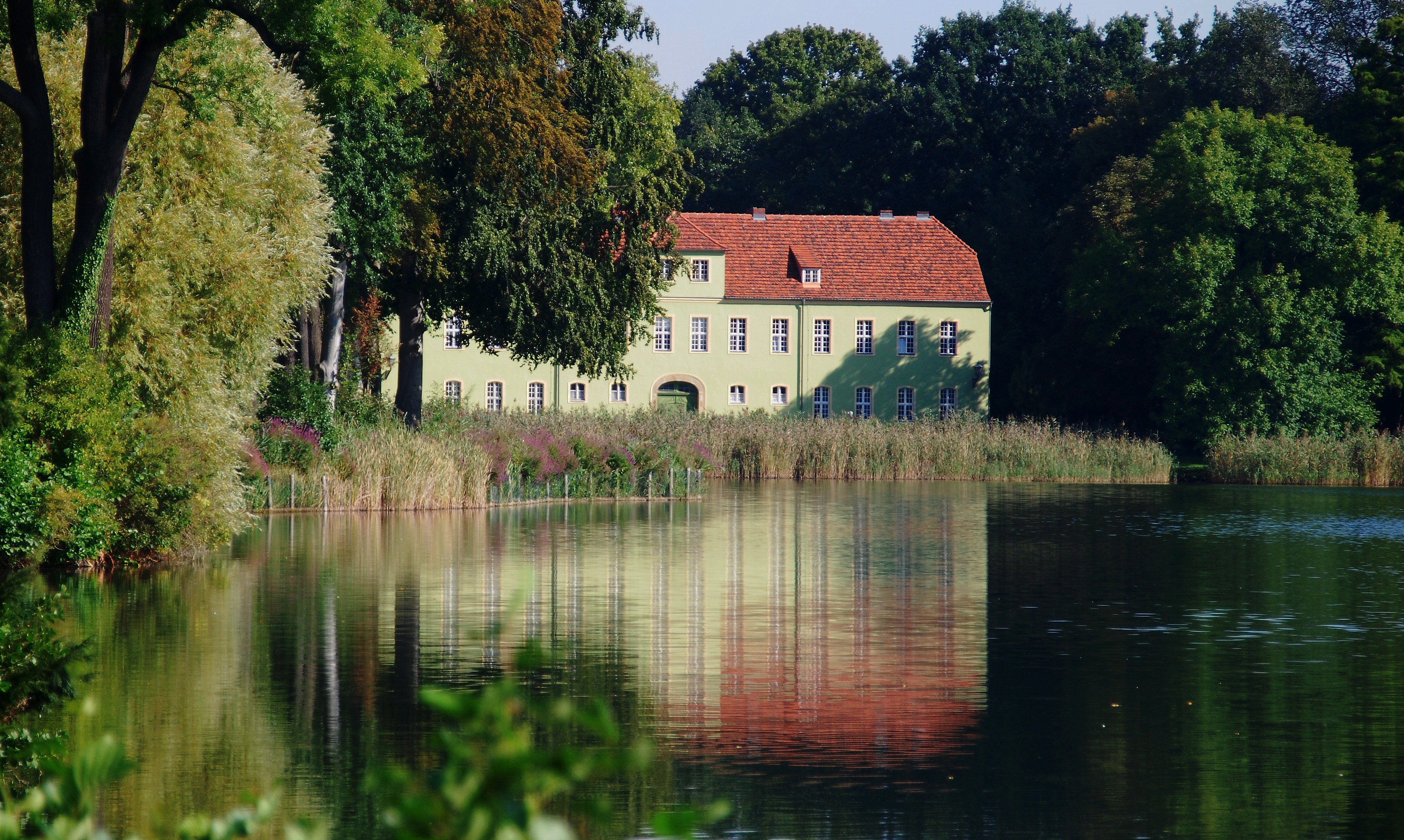 Potsdam, Germany: Grünes Haus, Neuer Garten. Picture taken 2009-09-09, modifyed 2019-08-29